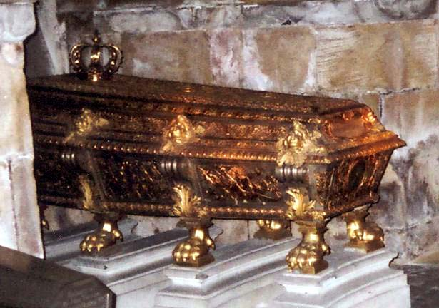 Grave of King Carl XI of Sweden (1655-1697) in the crypt of the Caroline Chapel at Riddarholm ChurchPlace: Stockholm, Sweden